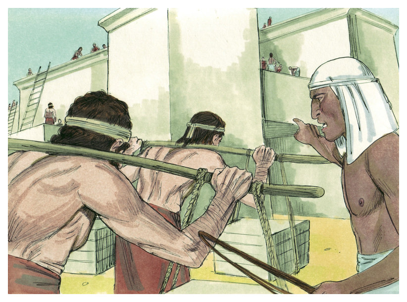 Biblical illustration of Book of Exodus Chapter 2